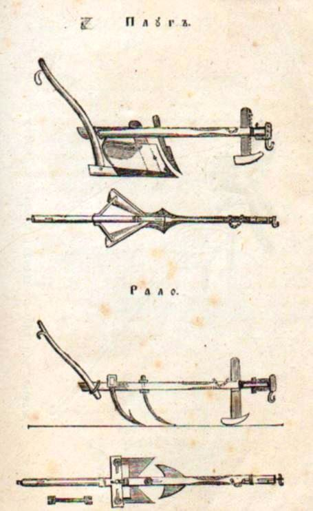 "Agriculture" by Nikola Ikonomov, published in 1853 - illustration of ploughs